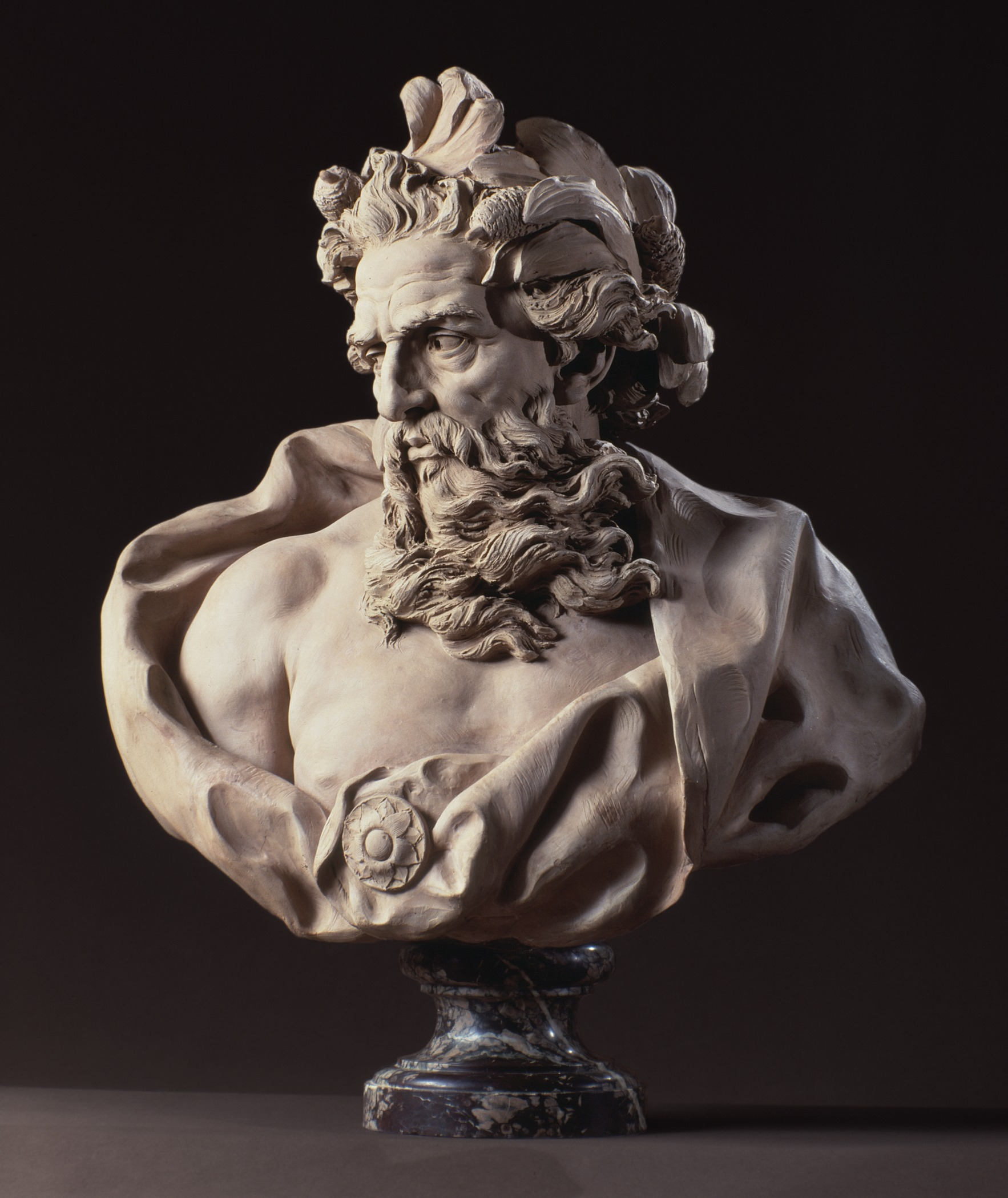 France, 1725-1727 Sculpture Terracotta on marble socle 27 x 21 x 11 3/4 in. (68.58 x 53.34 x 29.84 cm) without socle Gift of Michael J. Connell Foundation (M.75.70) European Sculpture Currently on public view: Ahmanson Building, floor 3